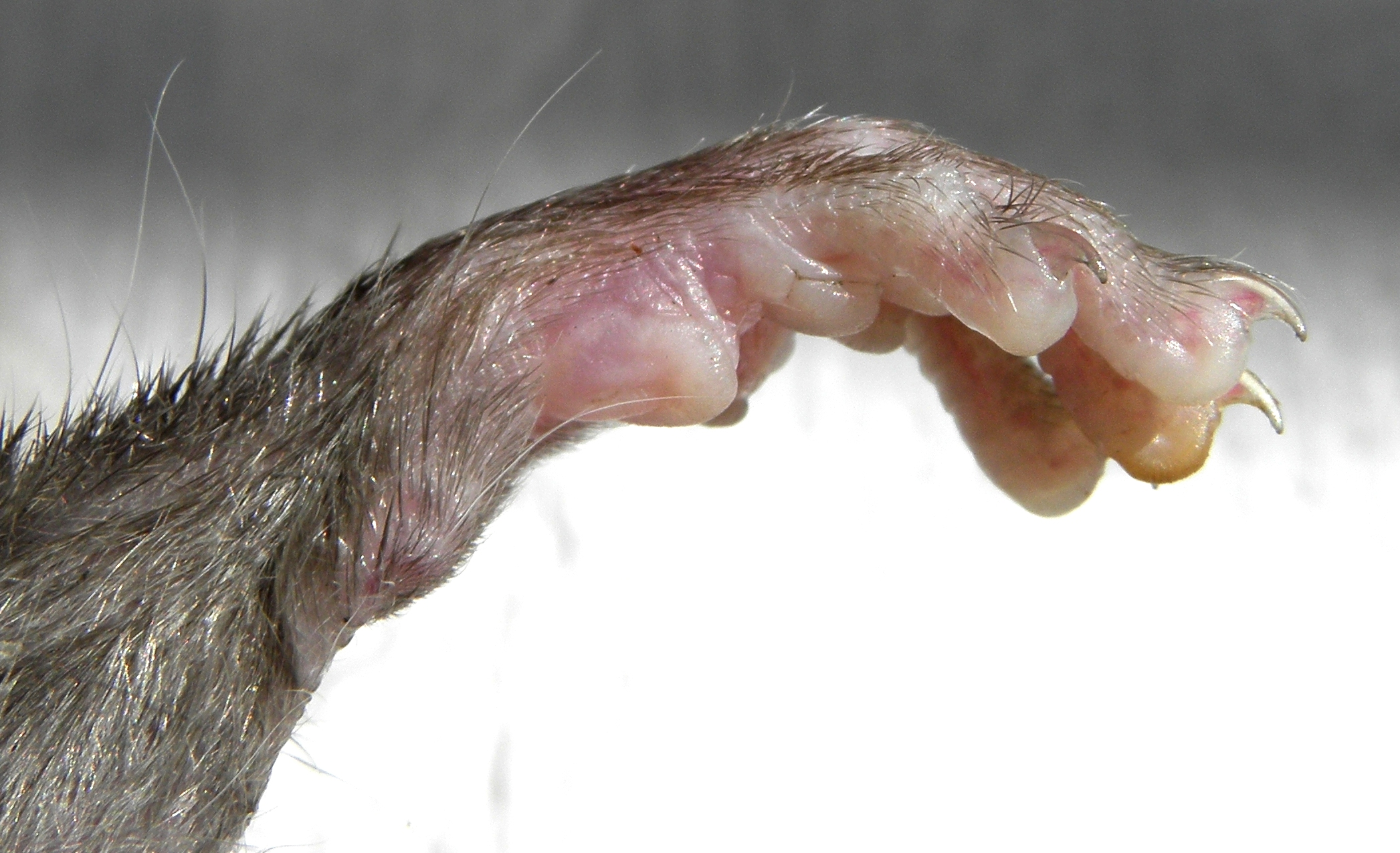 Hand of Black Rat (Rattus rattus).